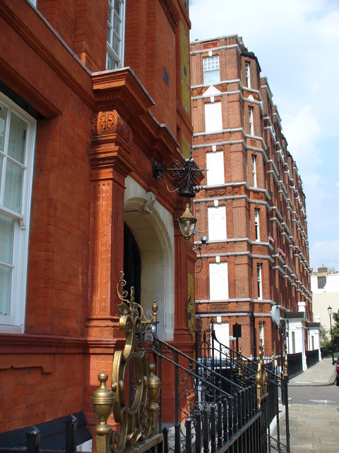 Cheyne Walk Expensive brick apartments in Chelsea, facing the Thames. Ornate railings front the buildings too.